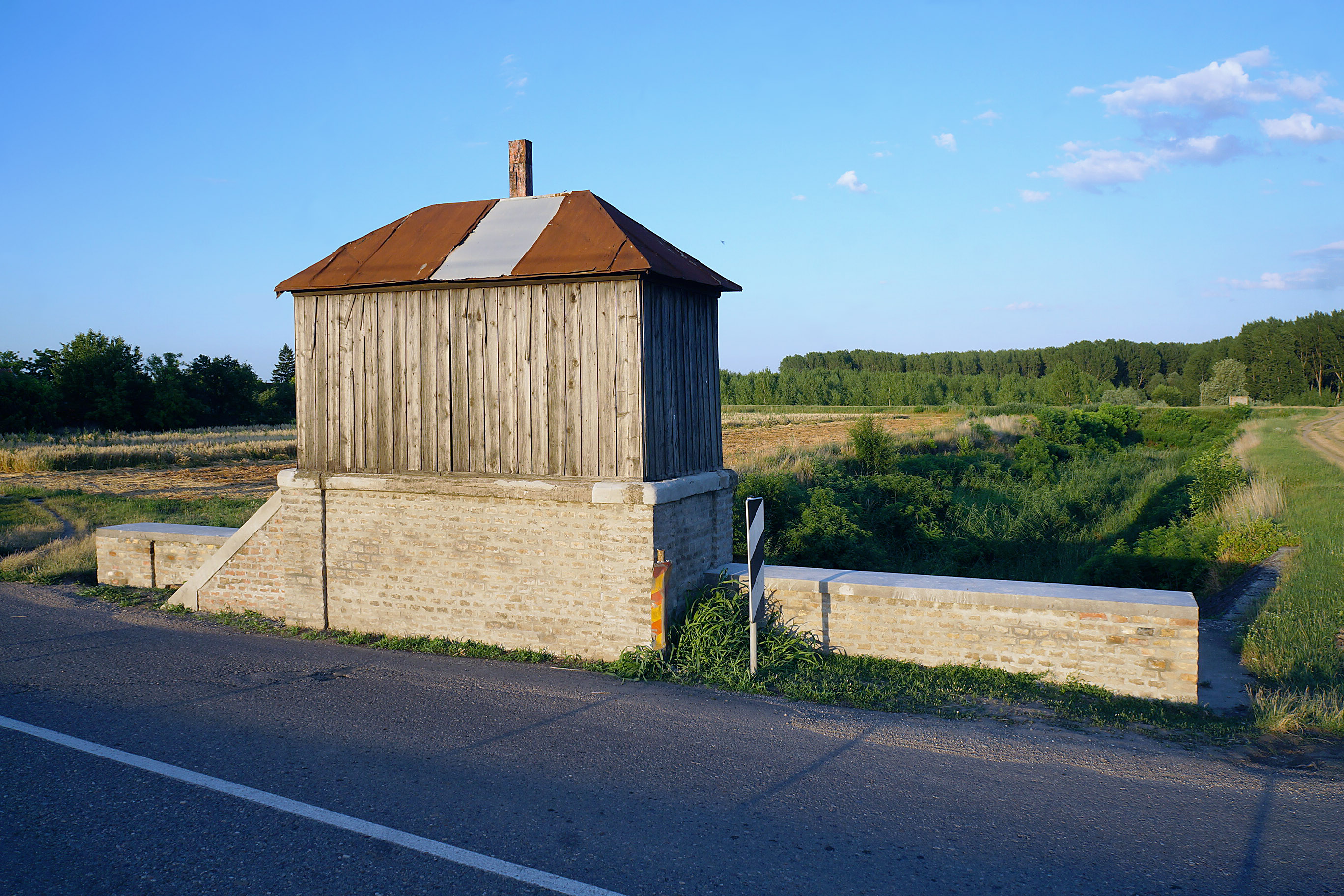 River in Vojvodina (Serbia) by name